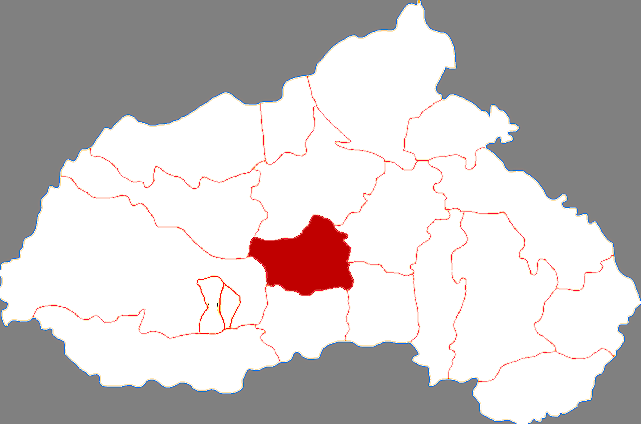 Location of Ren county in Xingtai City, China